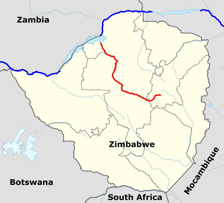 Sanyati River course in Zimbabwe. Zambia blue, Sanyati red.